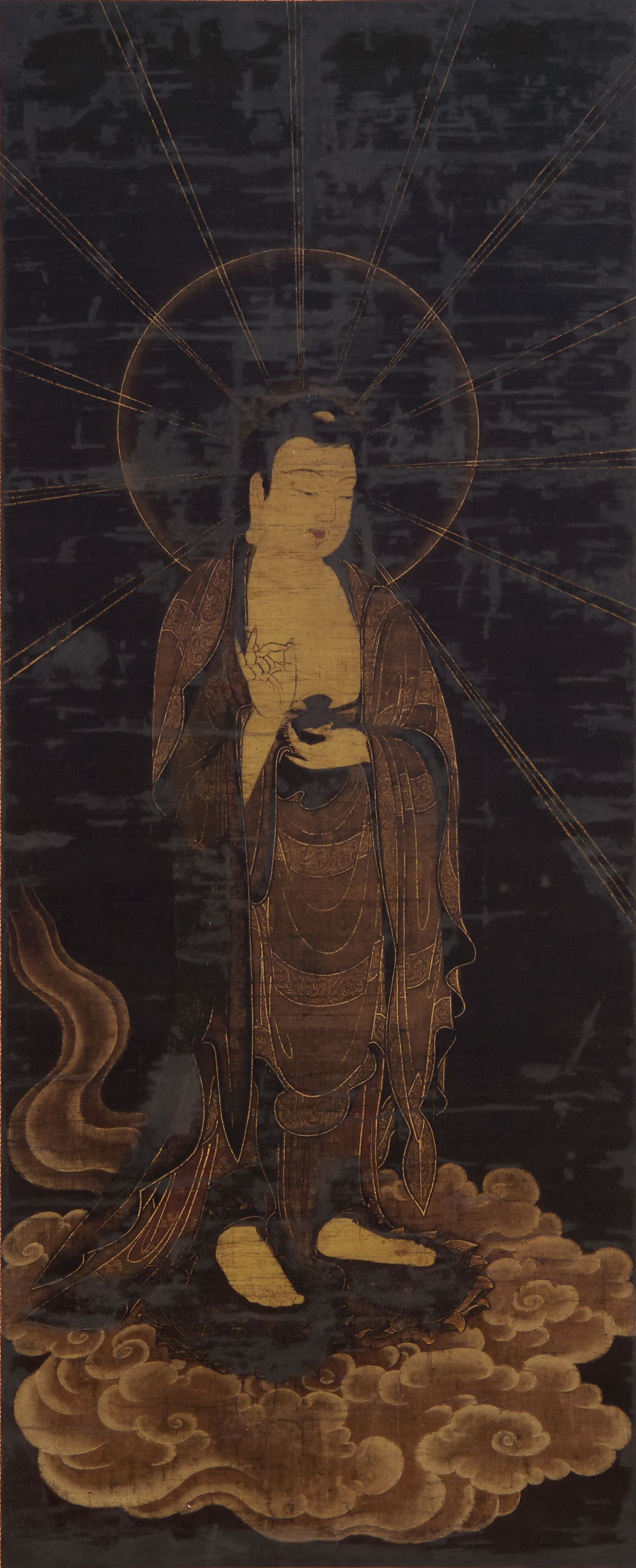 Yakushi Nyorai, Jofukuji, Tonami, Toyama, Japan